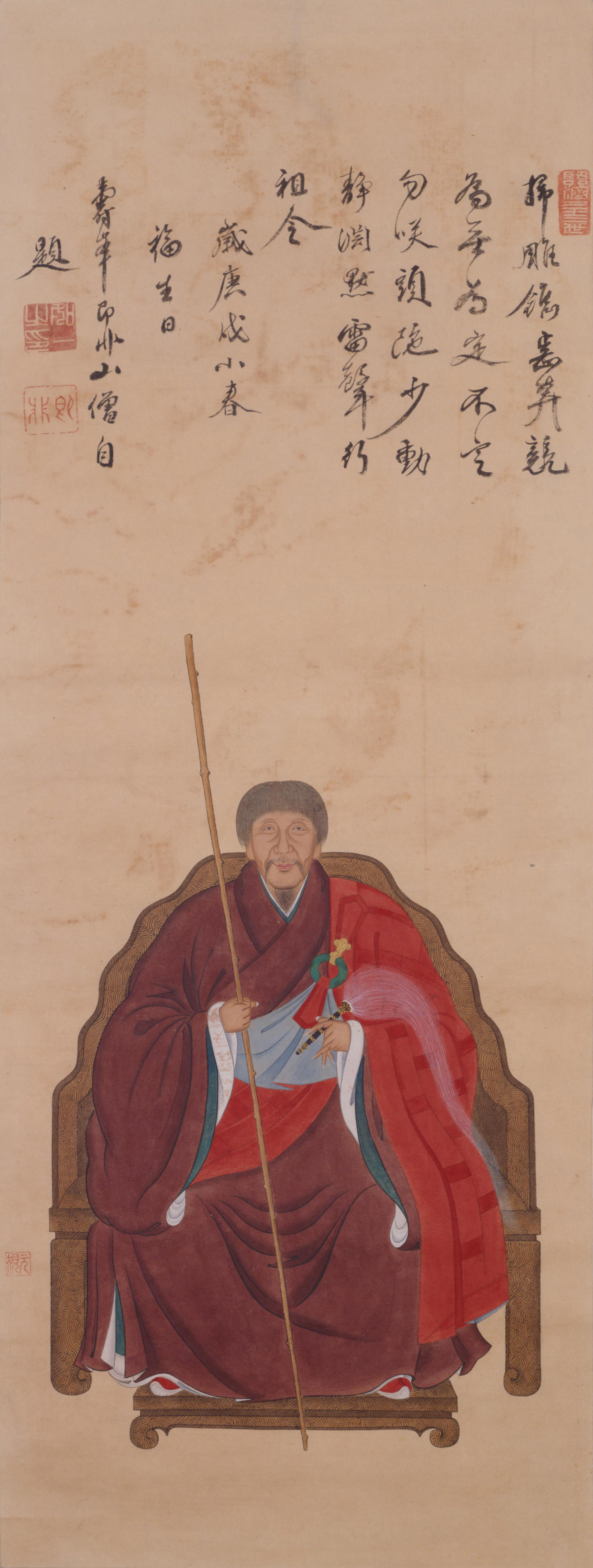 Sokuhi Nyoitsu, Sōfuku-ji, Nagasaki, Nagasaki, Japan